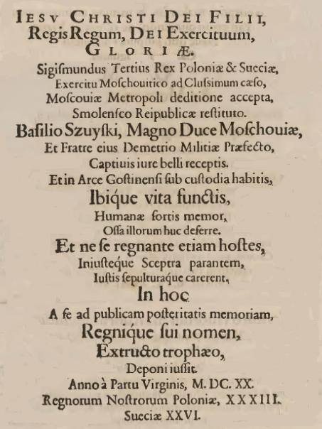 Muscovy Chapel memorial plaque, 1620